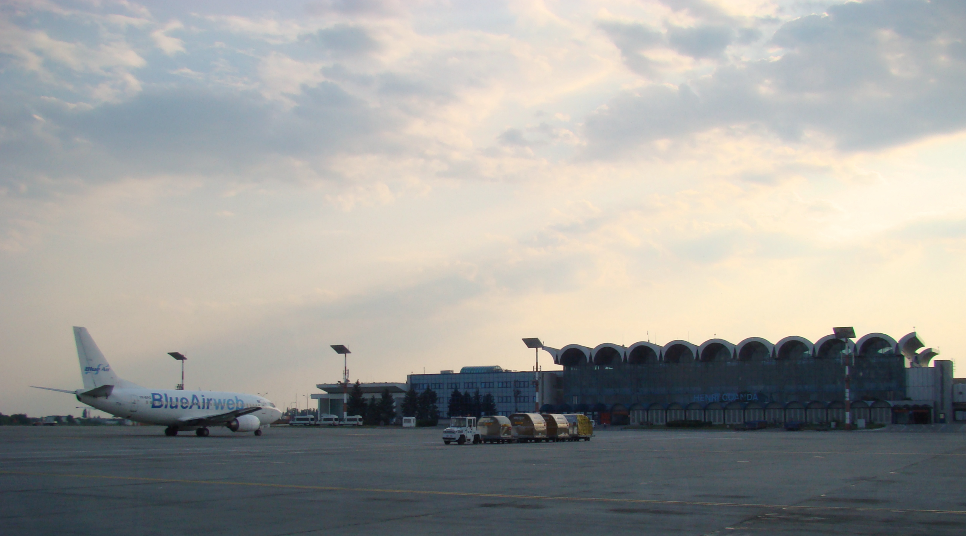 Boeing 737-300 of Blue Air at Bucharest Airport